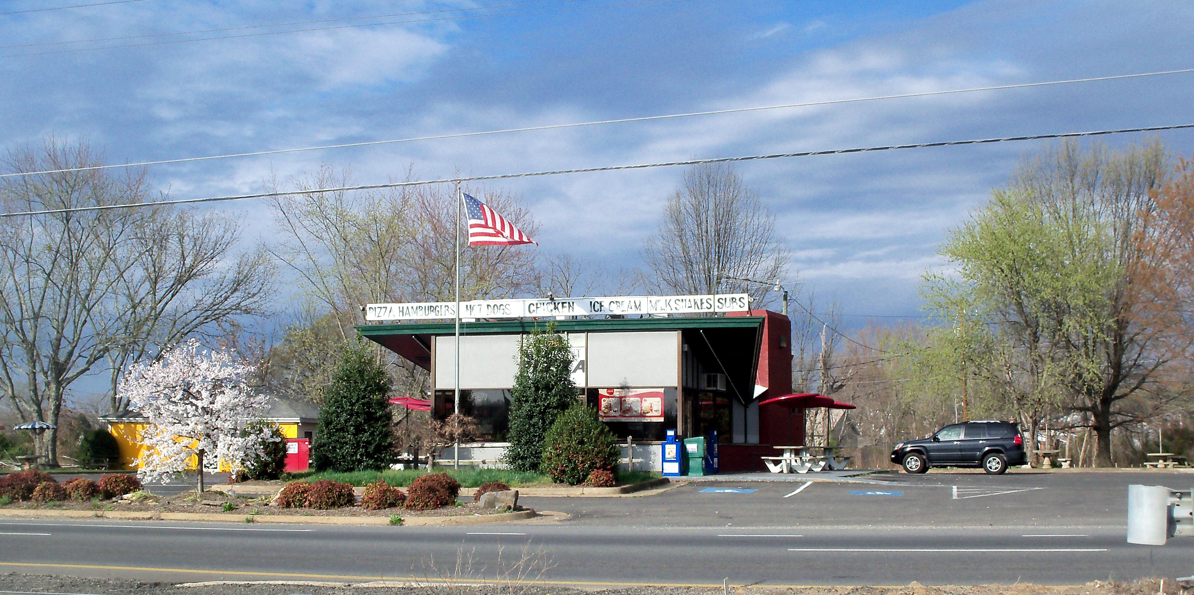 Pete's Park-N-Eat